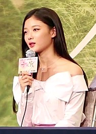 Love in the Moonlight Press Conference 2016